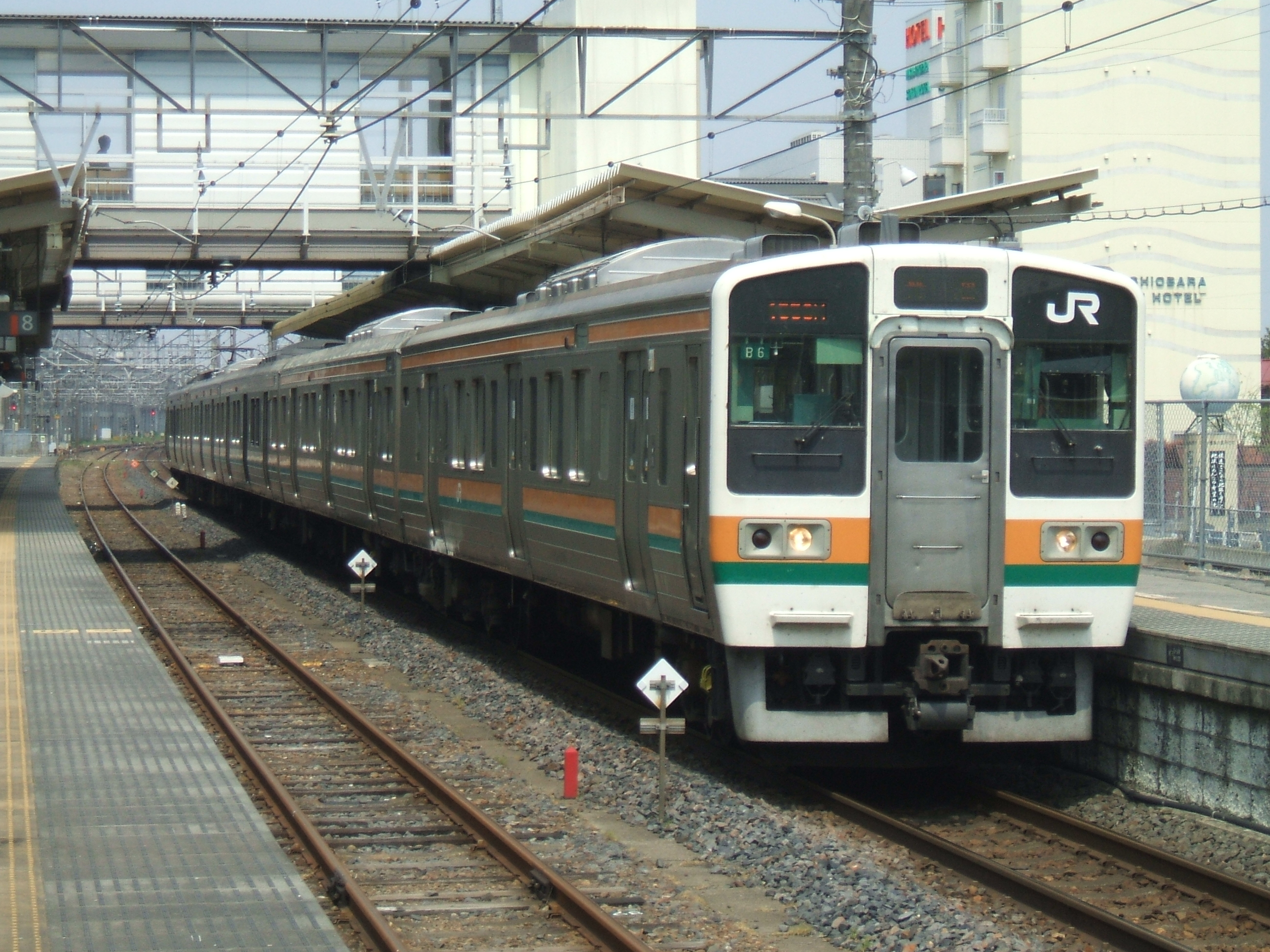 JR East 211 series 4-car EMU set B4 at Nasushiobara Station on an Utsunomiya Line service